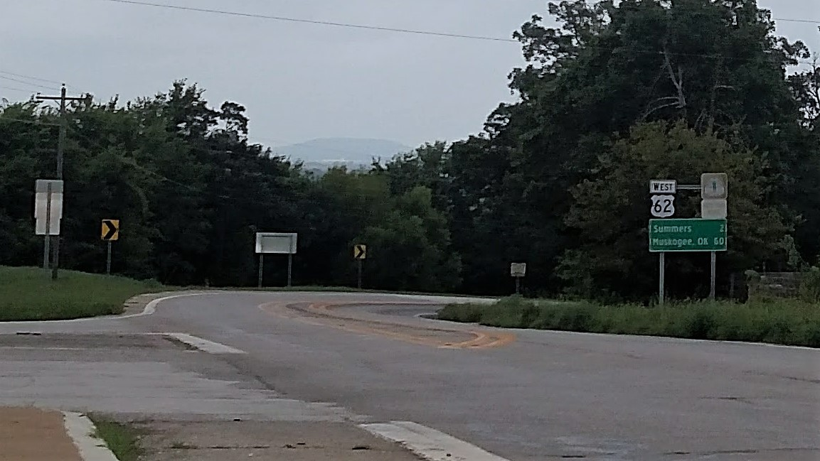 US 62 west of Highway 59 junction, Washington County, AR. Facing west